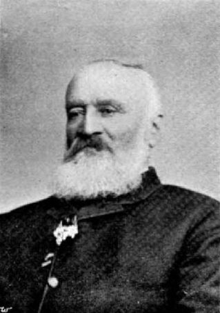 Alfred Cox, runholder and politician from New Zealand